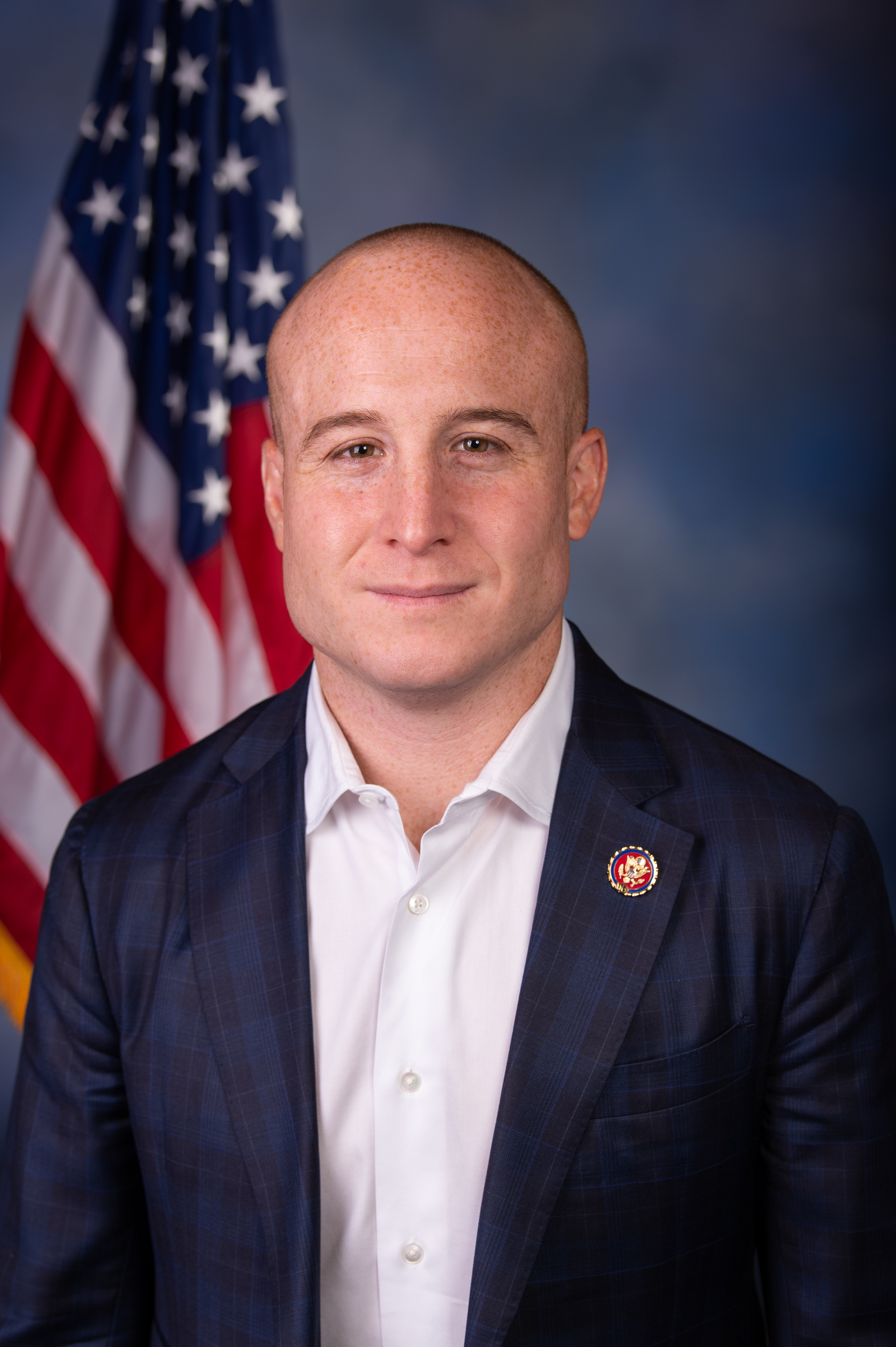 Max Rose, member of the United States House of Representatives from New York.